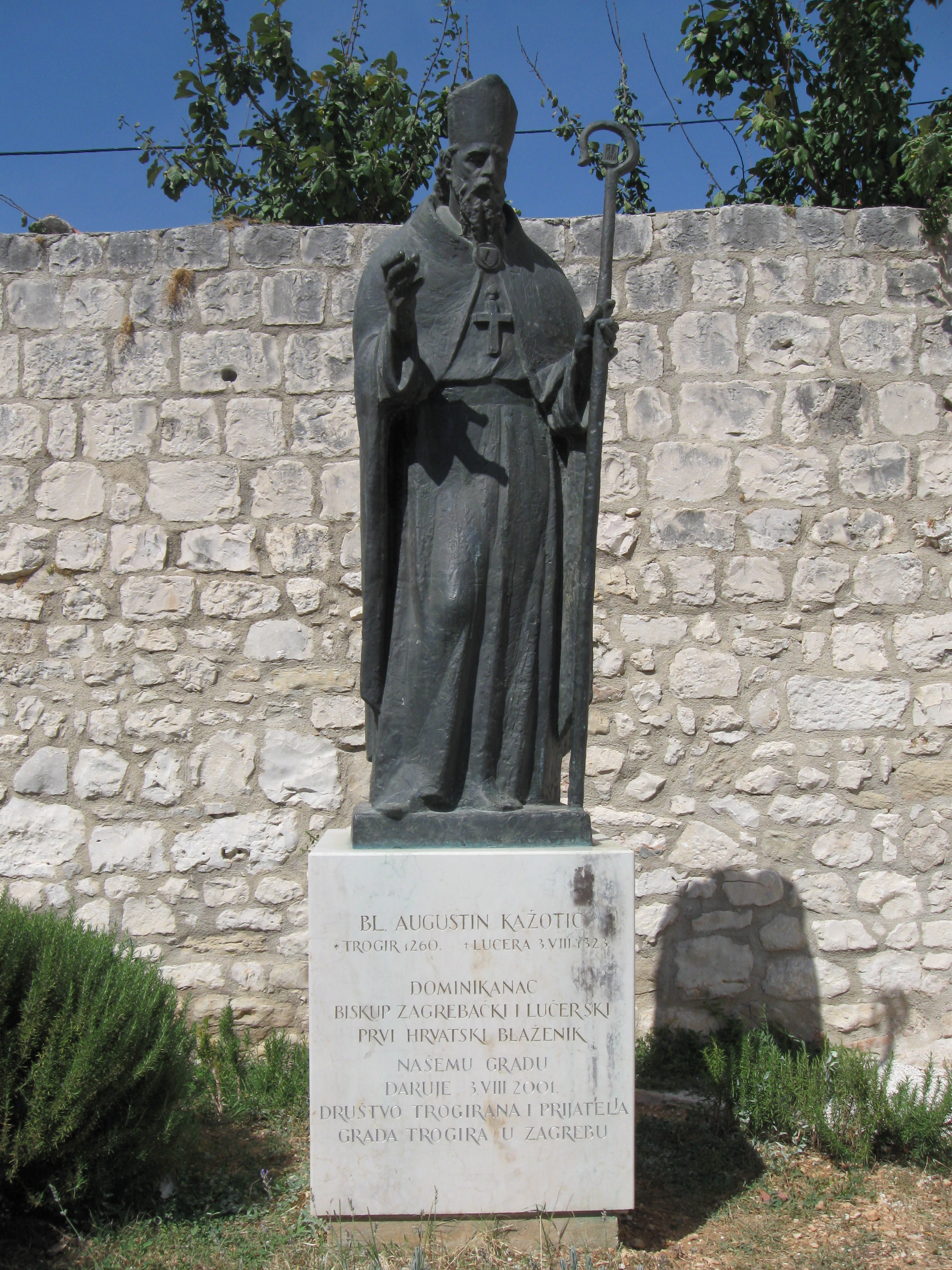 A monument to Augustin Kažotić (1260–1323), a Croatian humanist, a medieval Christian monk, an orator and the bishop of Zagreb. TrogirHrvatski: Spomenik Augustinu Kažotiću (1260–1323), dominikanac zagrebački biskup і lučerski, prvi hrvatski blaženik. Trogir